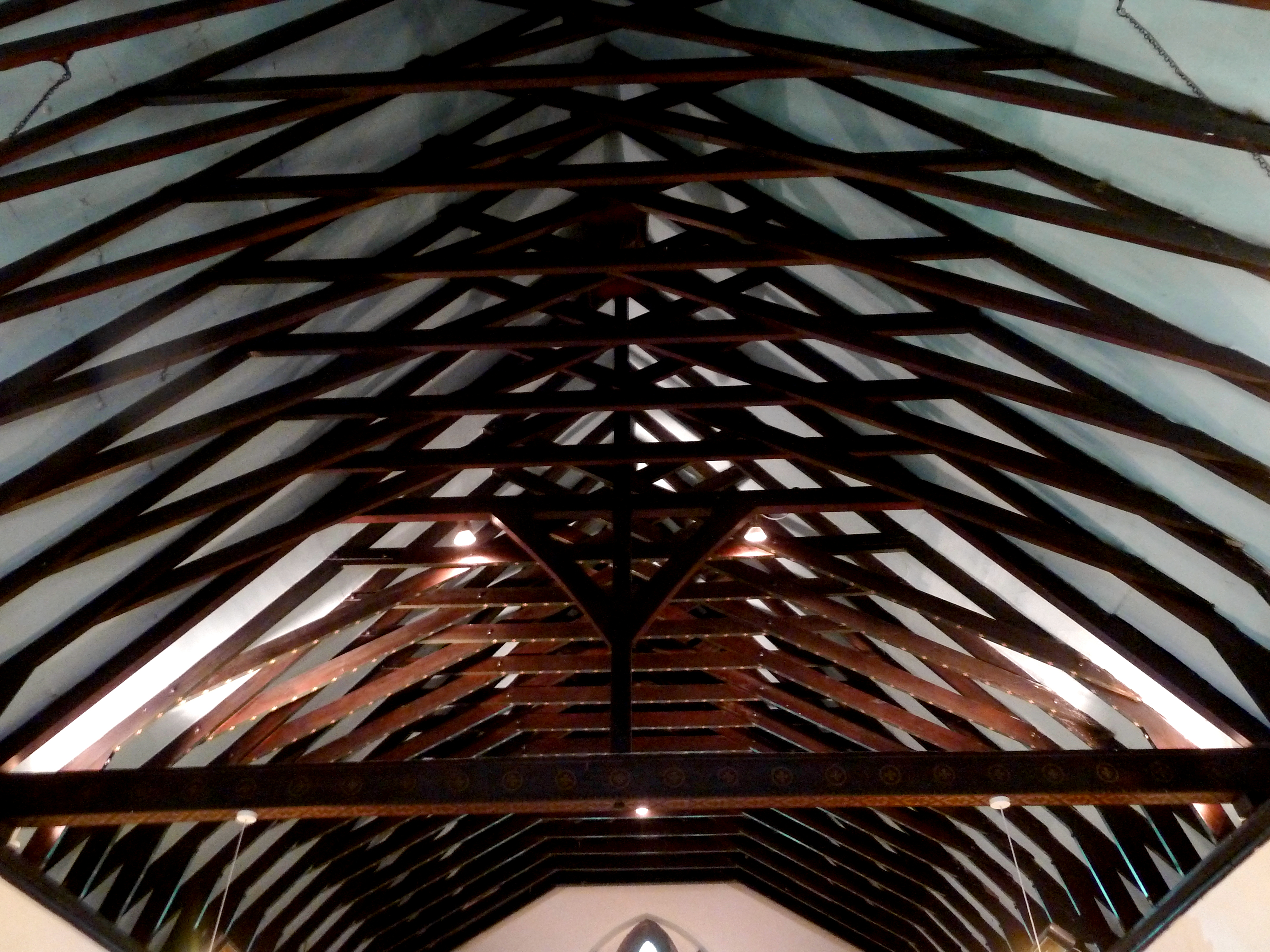 Interior of Church of St John the Divine, Calder Grove, Wakefield, West Yorkshire, England. Designed in 1892 by William Swinden Barber. Cross-braced roof trusses, looking from nave towards chancel. This image shows how only the chancel roof beams were originally decorated with stencils.